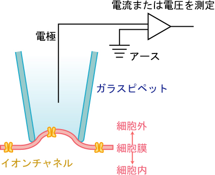 principle of patch clump